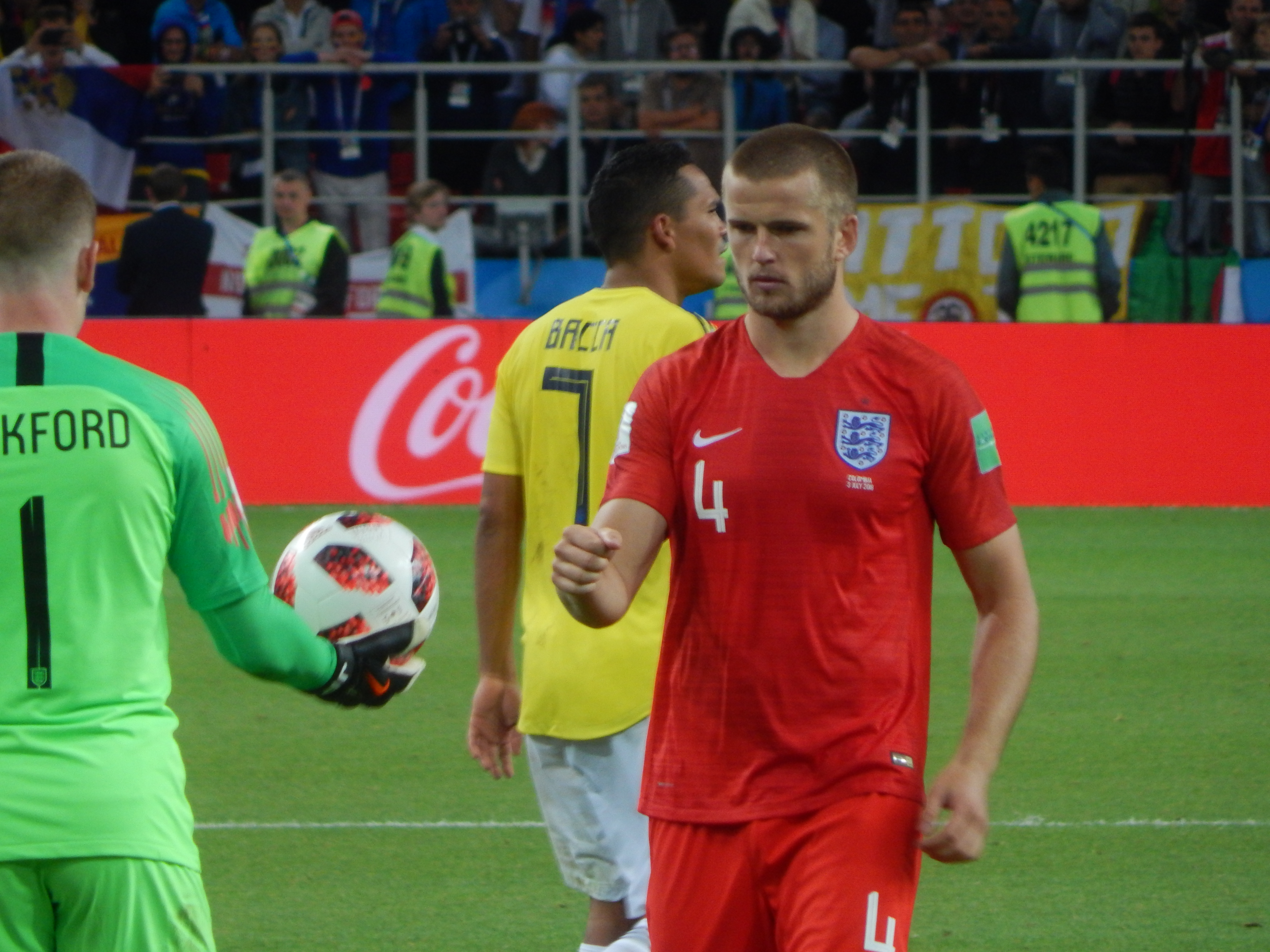 FIFA World Cup 2018, Round of 16, Colombia vs. England. Jordan Pickford gives a ball to Eric Dier to kick the deciding penalty at shoot-out